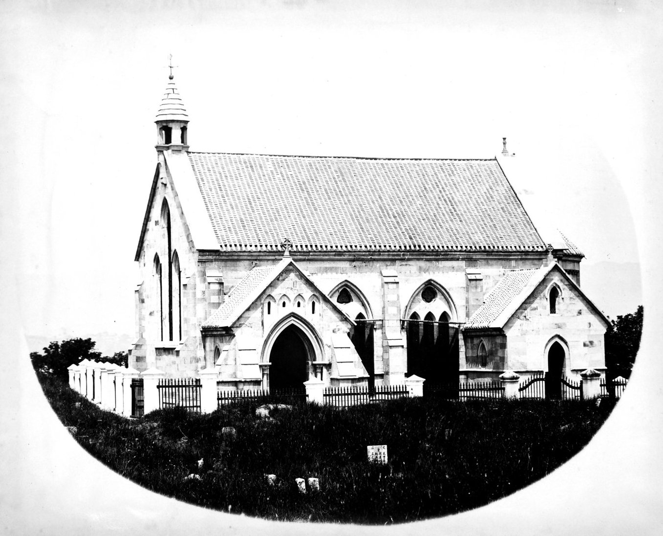 St. John's Church, Foochow